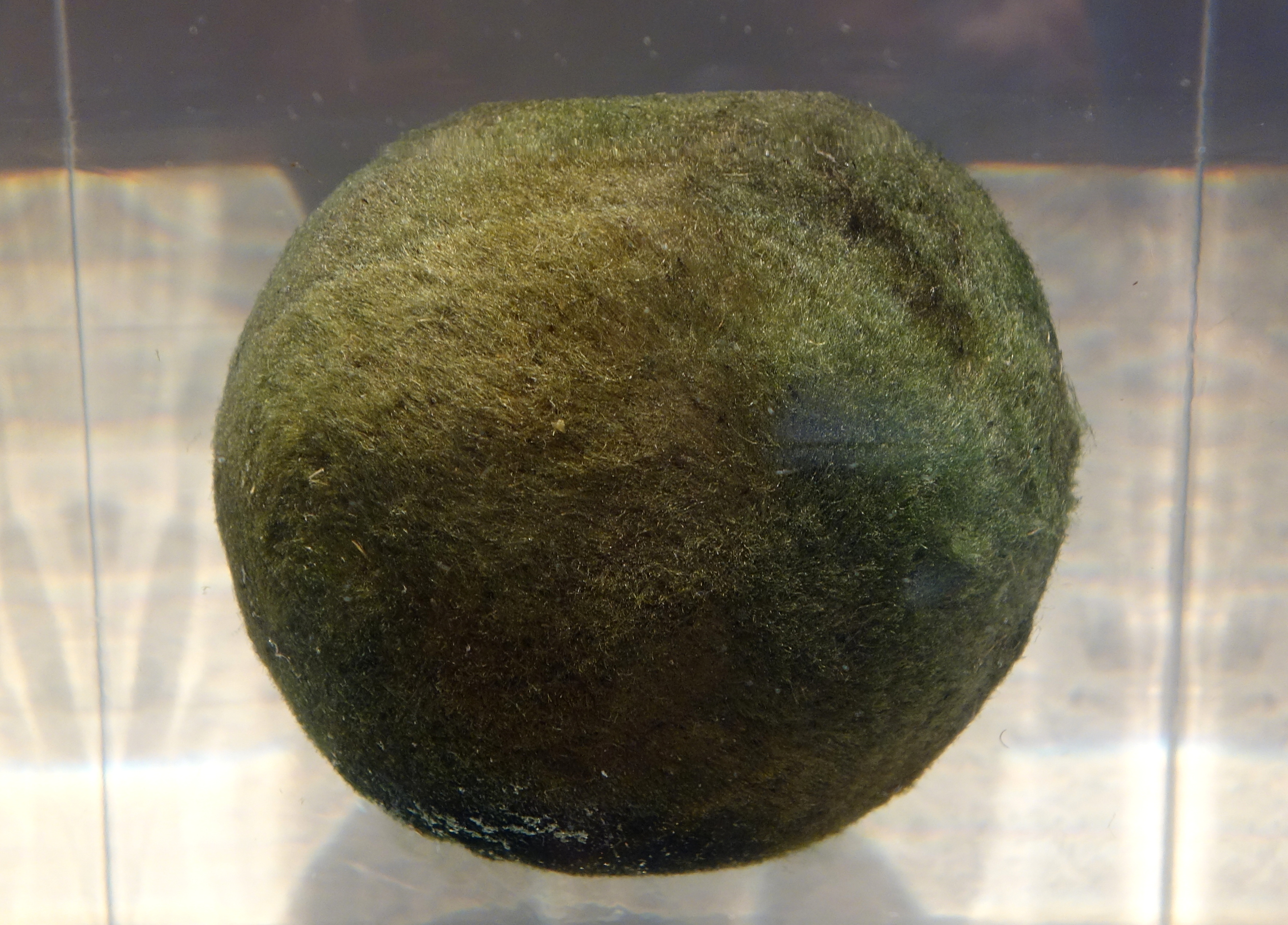 Exhibit in the National Museum of Nature and Science, Tokyo, Japan.